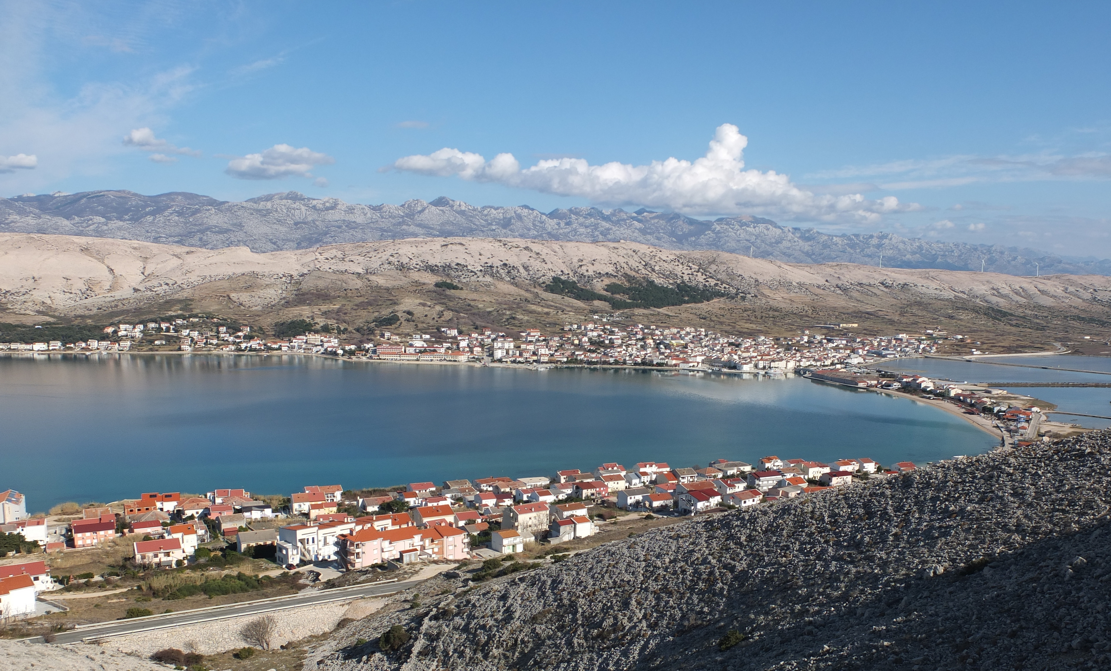 Town of Pag on the Island of Pag, Croatia (view W).